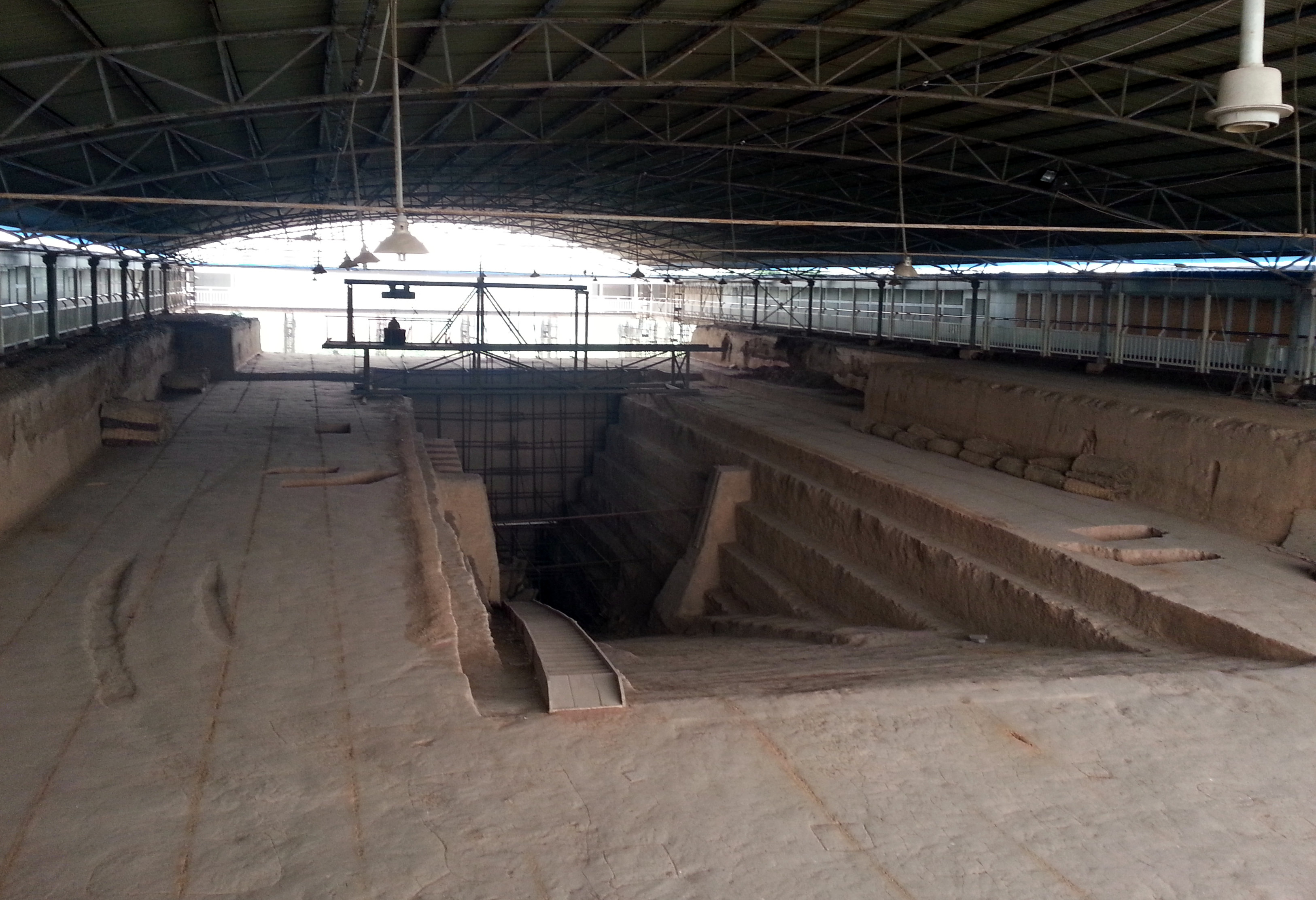 Photograph of the front side of the Xigaoxue tomb No. 2, Anfeng Township, Anyang County, Anyang, Henan, China.